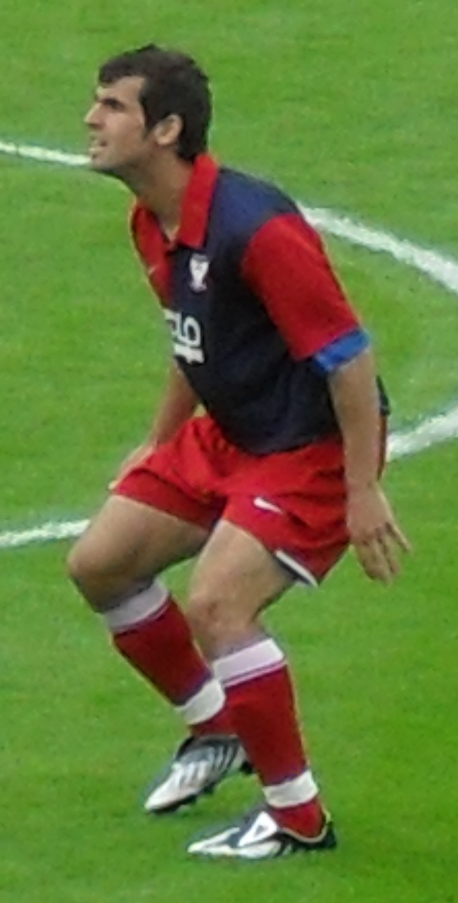 Alex Lawless playing for York City against Leeds United at Bootham Crescent, York on 12 July 2009